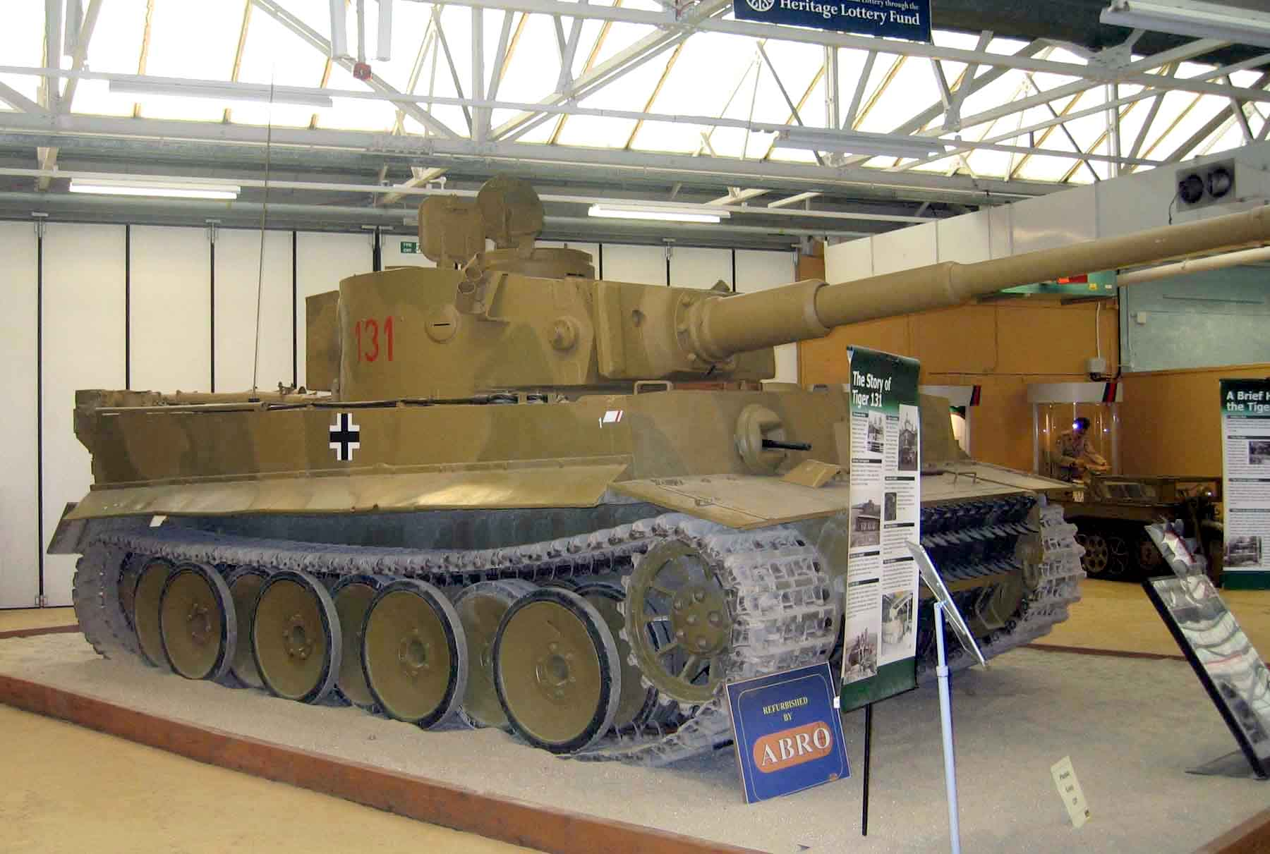 Restored Tiger tank at Bovington Tank Museum.